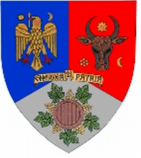 Coat of arms of Vrancea County, Romania.